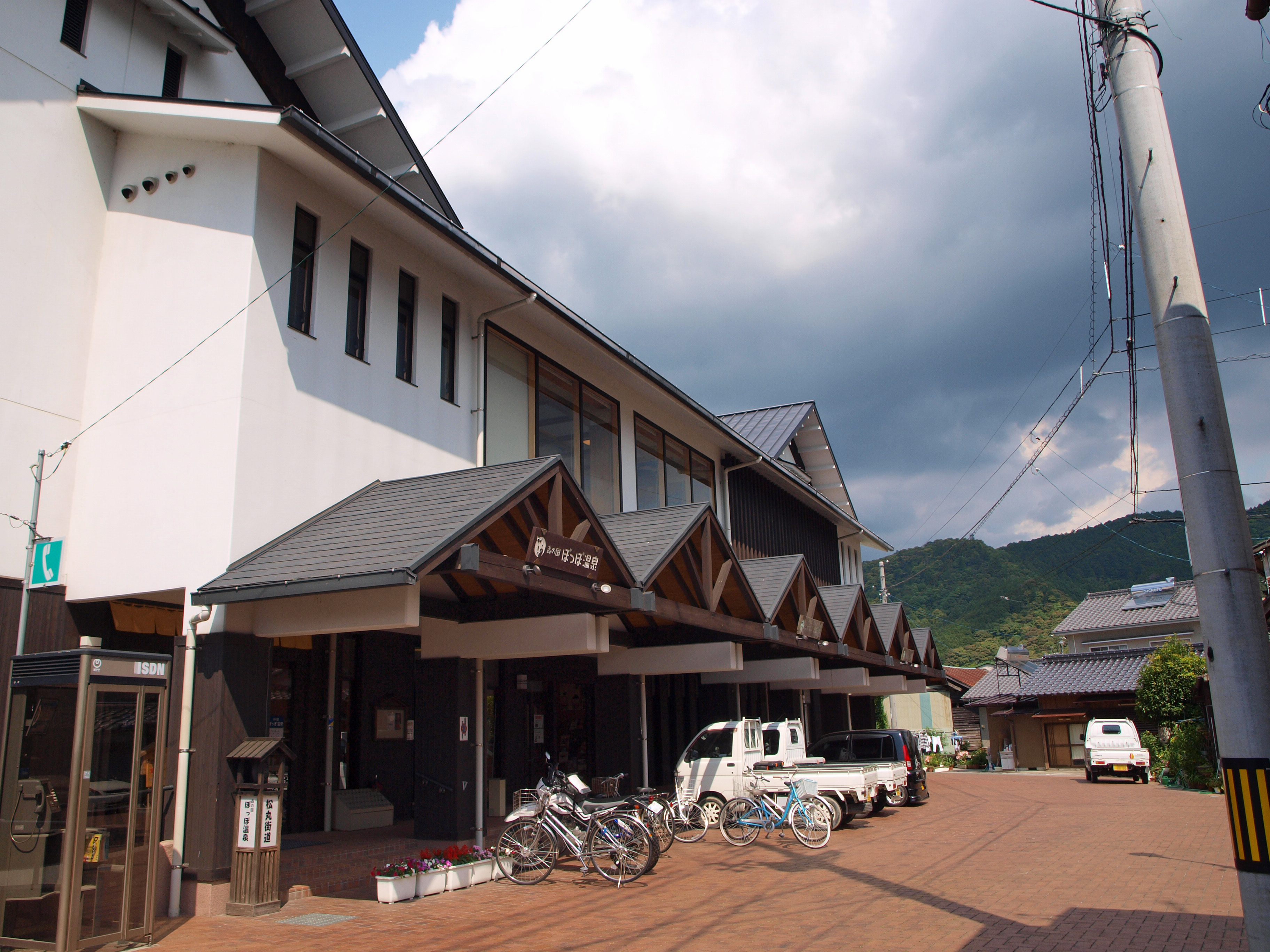 Matsumaru station, Yodo-line, JR Shikoku, Japan